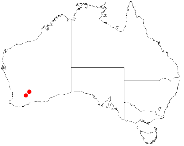 Acacia concolorans Occurrence data from Australasia Virtual Herbarium downloaded from on 8 December 2018